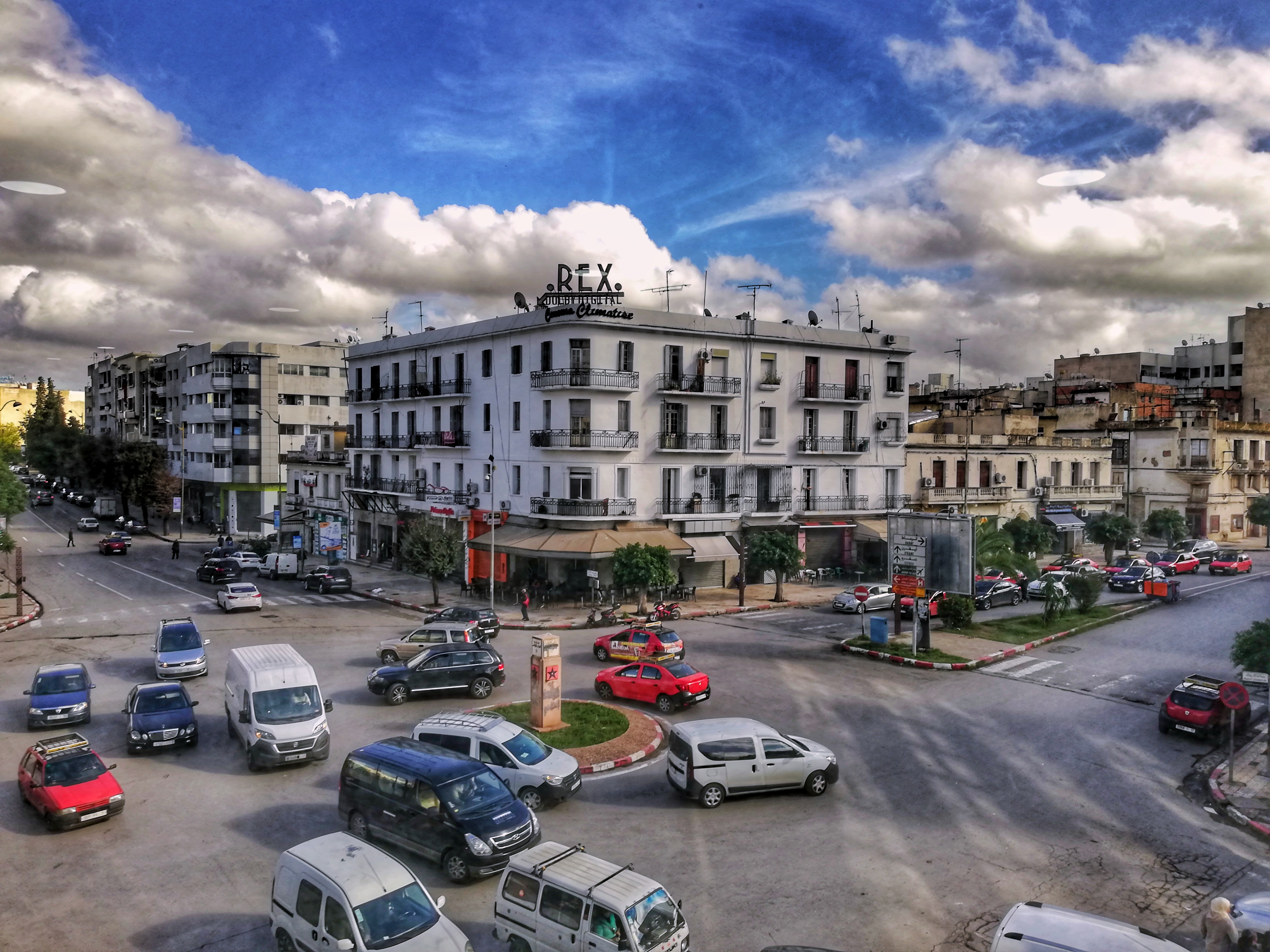 Cinema rex of fes This is an image with the theme "Play" from: Morocco